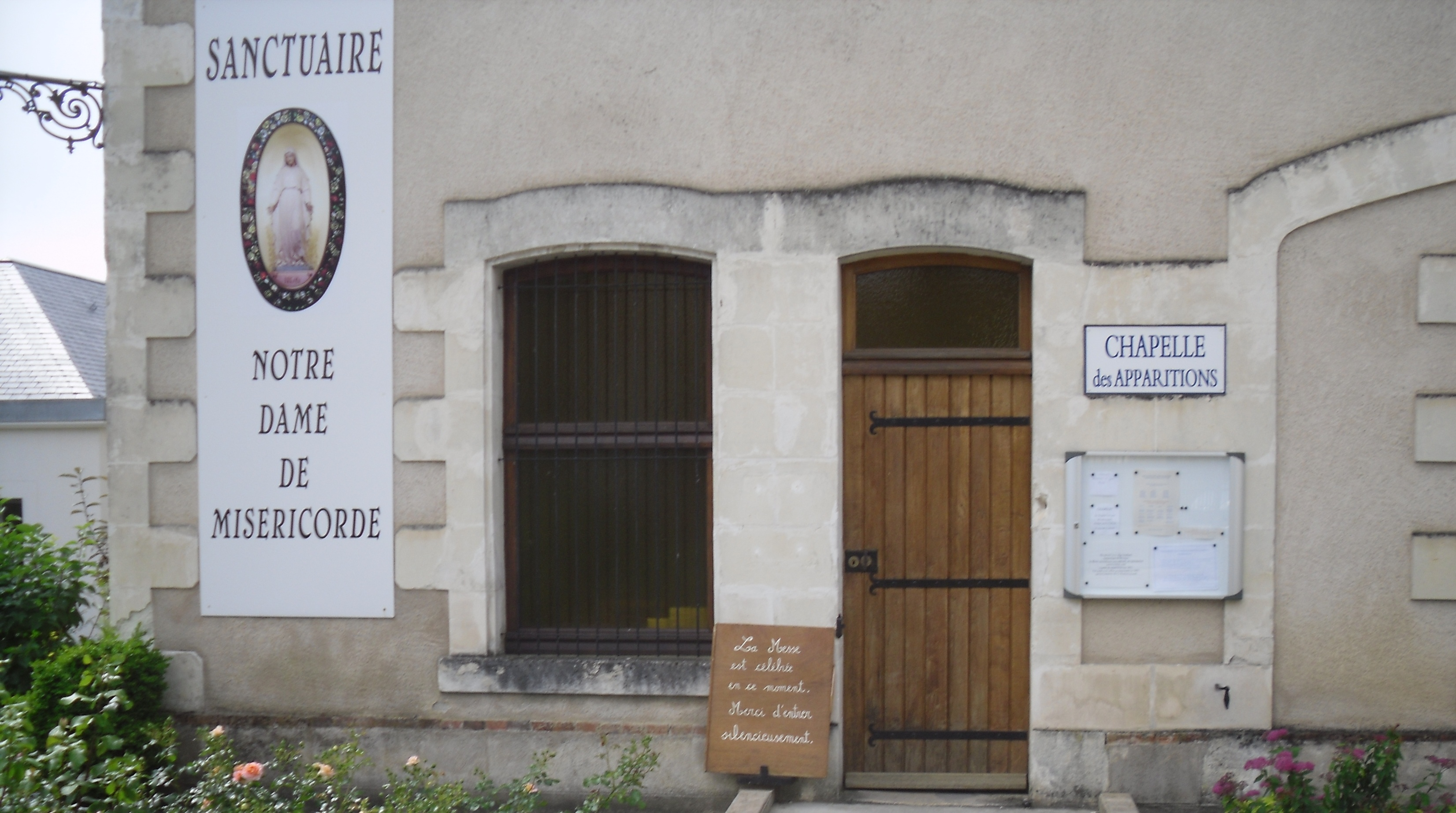 This chapel was formerly the quarters of domestic servant, Estelle Faguette, who claimed to have received visions of the Virgin Mary in 1876. It is now an oratory open to the public.